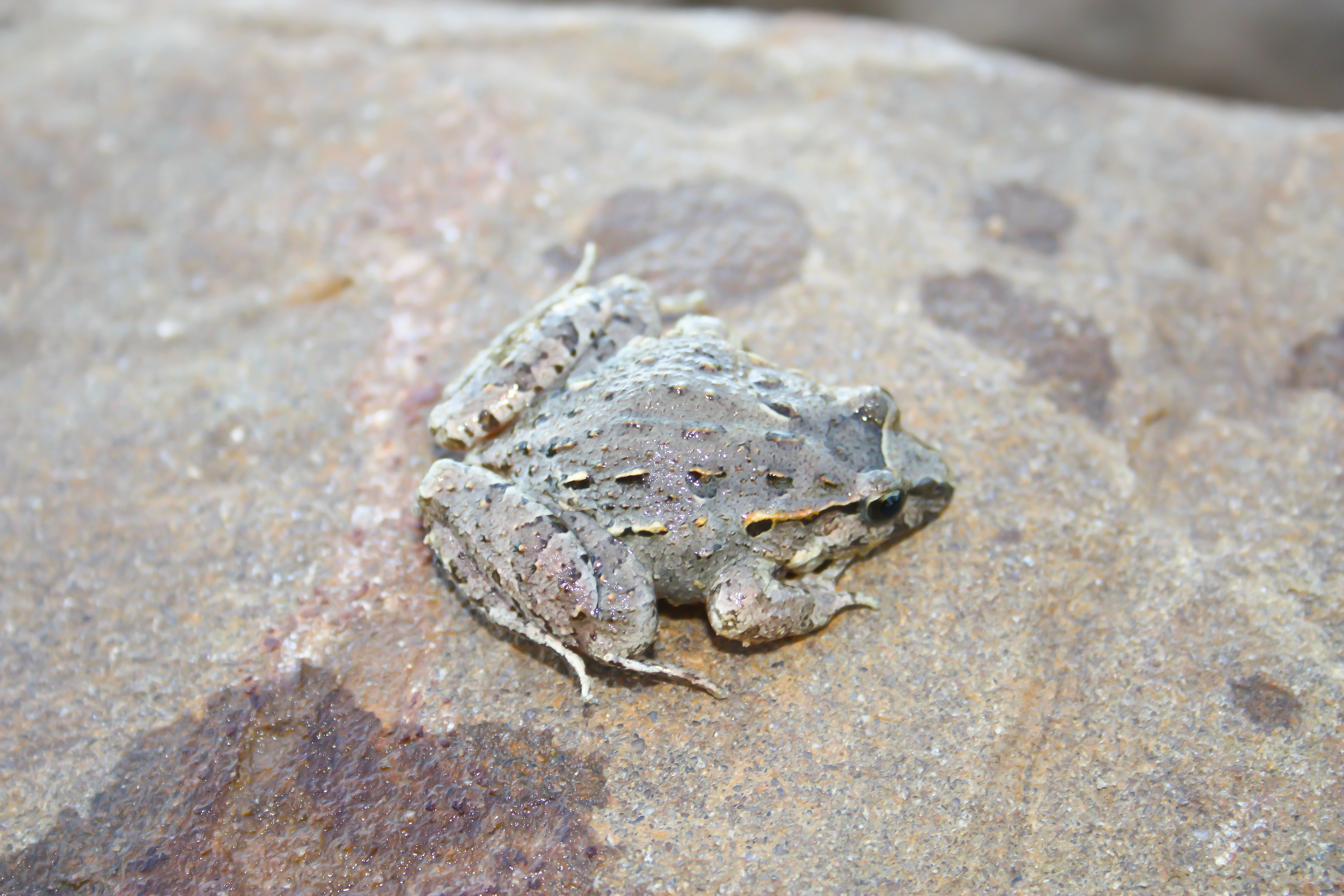 Subadult D. scovazzi (Morocco)